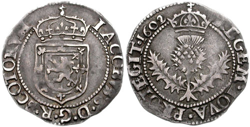 Scotland. James VI of Scotland. 1567-1625. AR 1/4 Thistle Merk (21mm, 1.60 g, 1h). Eighth coinage. Dated 1602. IACOBVS • D• G • R • SCOTORVM, crowned coat-of-arms REGEM • IOVA • PROTEGIT • 1602, crowned thistle. Burns 2 (fig. 945); SCBI 35 (Ashmolean), 1300-04; SCBC 5499. VF, toned. Well centered on a full flan.